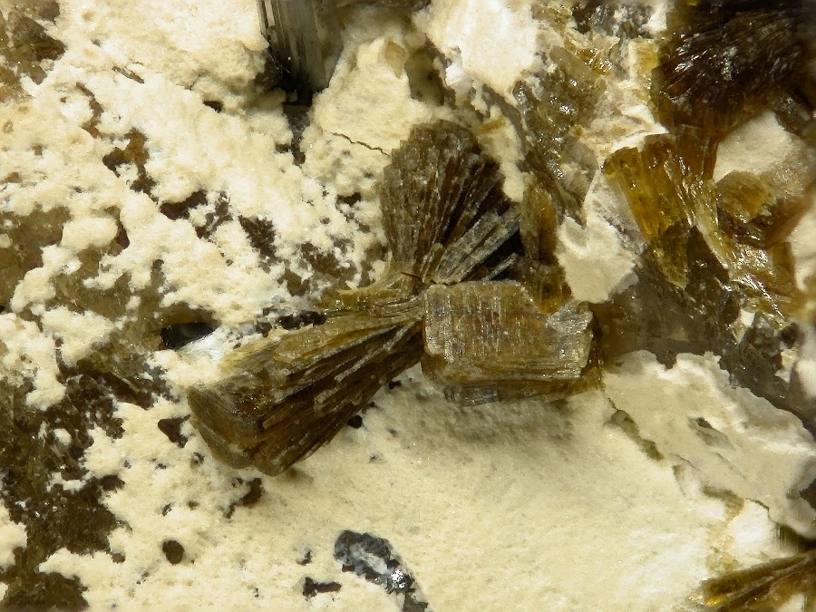 Greifensteinite (Picture size: 3 mm) Locality: Greifensteine, Ehrenfriedersdorf, Ore mountains, Saxony, Deutschland